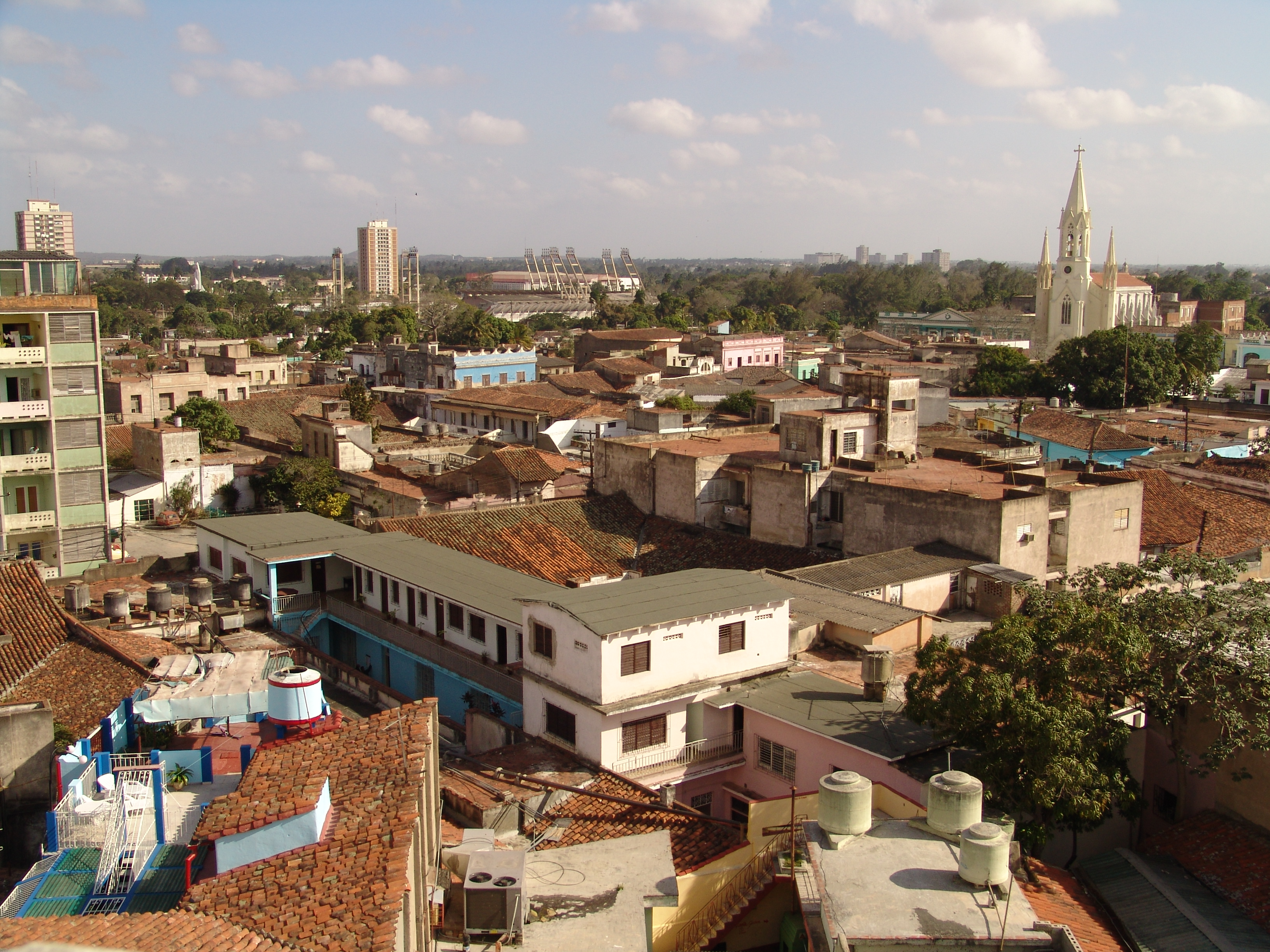 Iglesia San Francisco (right) and Estadio Cándido González (background, center) in Camagüey. I took the picture.